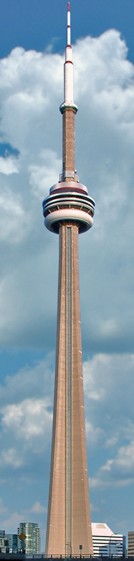 Once setting the free standing, land record for the world's tallest structure, measuring 553.33 meters (1,815 feet, 5 inches), the CN Tower is Toronto's most visible landmark and arguably its most celebrated tourist destination. 2006 marks its 30th annibumersary. This view looks WNW.